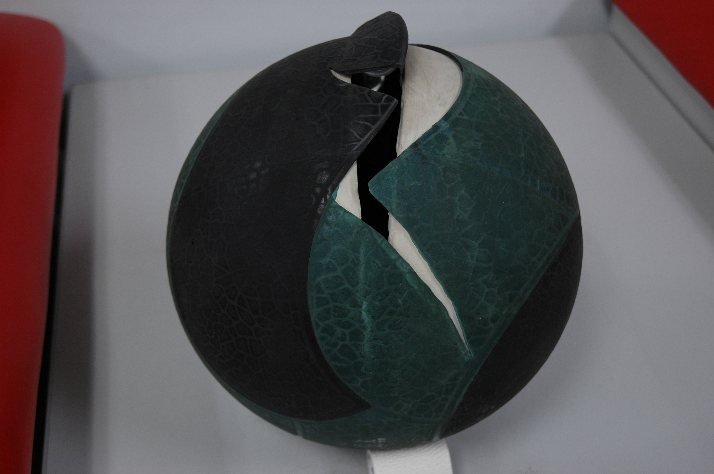 Outer rubber shell and inner core of an air filled 10 pound medicine ball